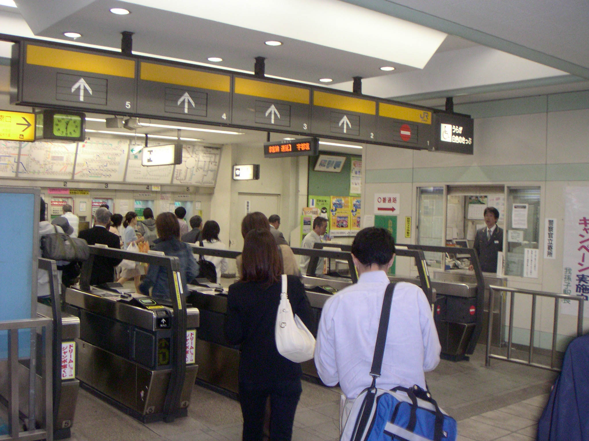 Abiko Station, gate Source: ph by っ May 2005 Copyrighted by っ